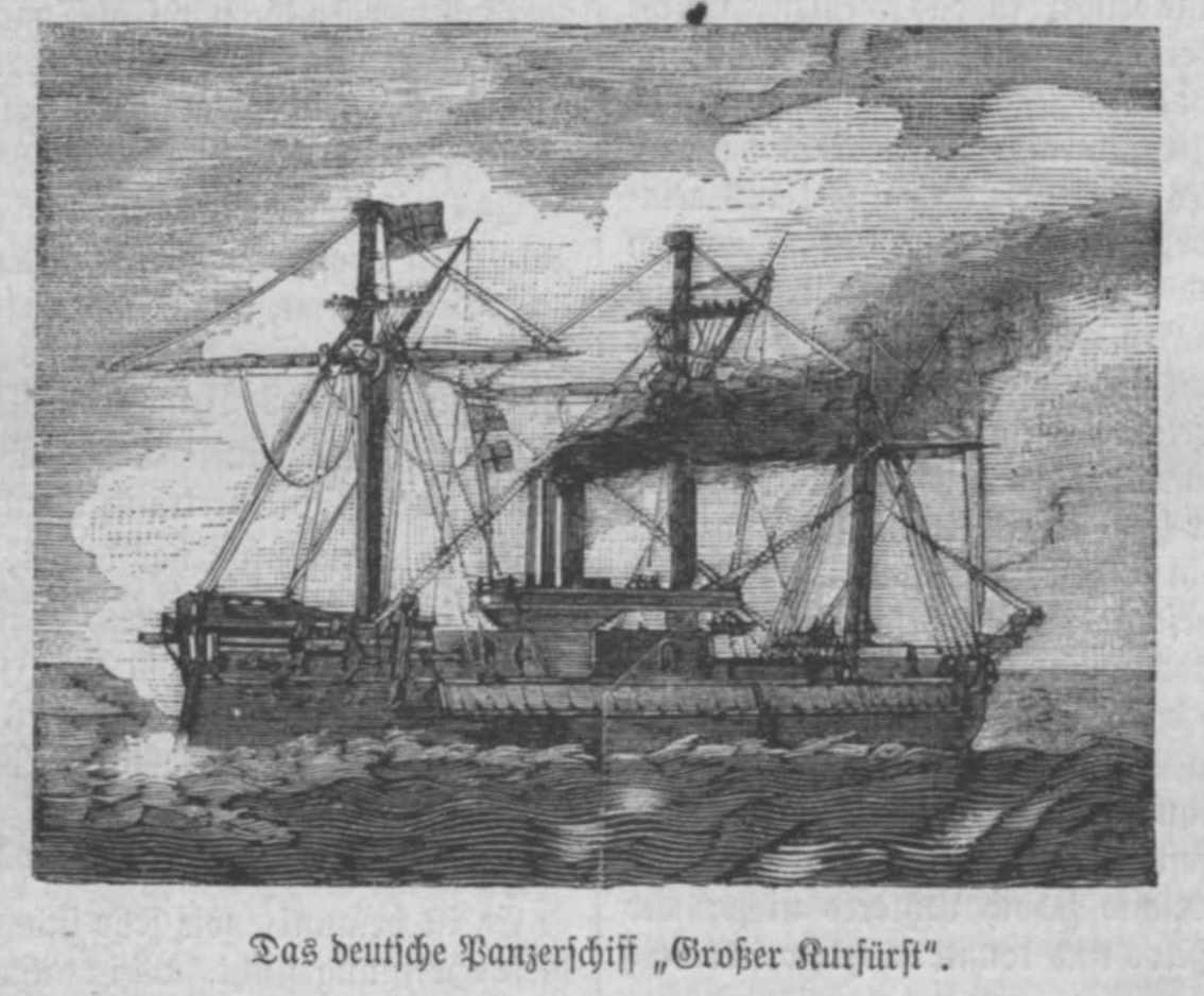 german warship "Großer Kurfürst"